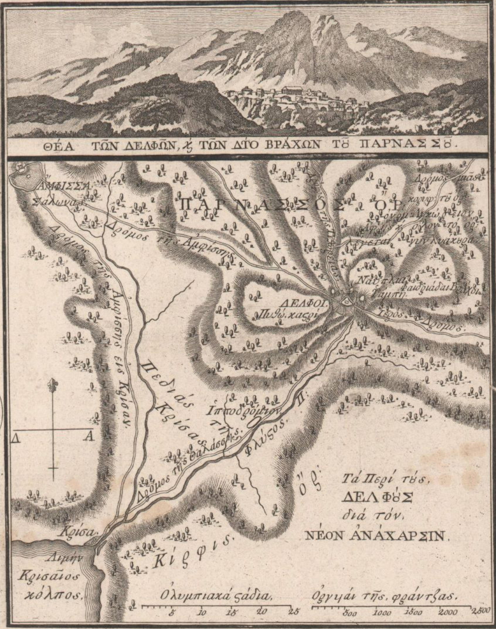 (Part 12 - Delphi) Charta of Greece / Rigas Charta, Rigas Velestinlis, 1797